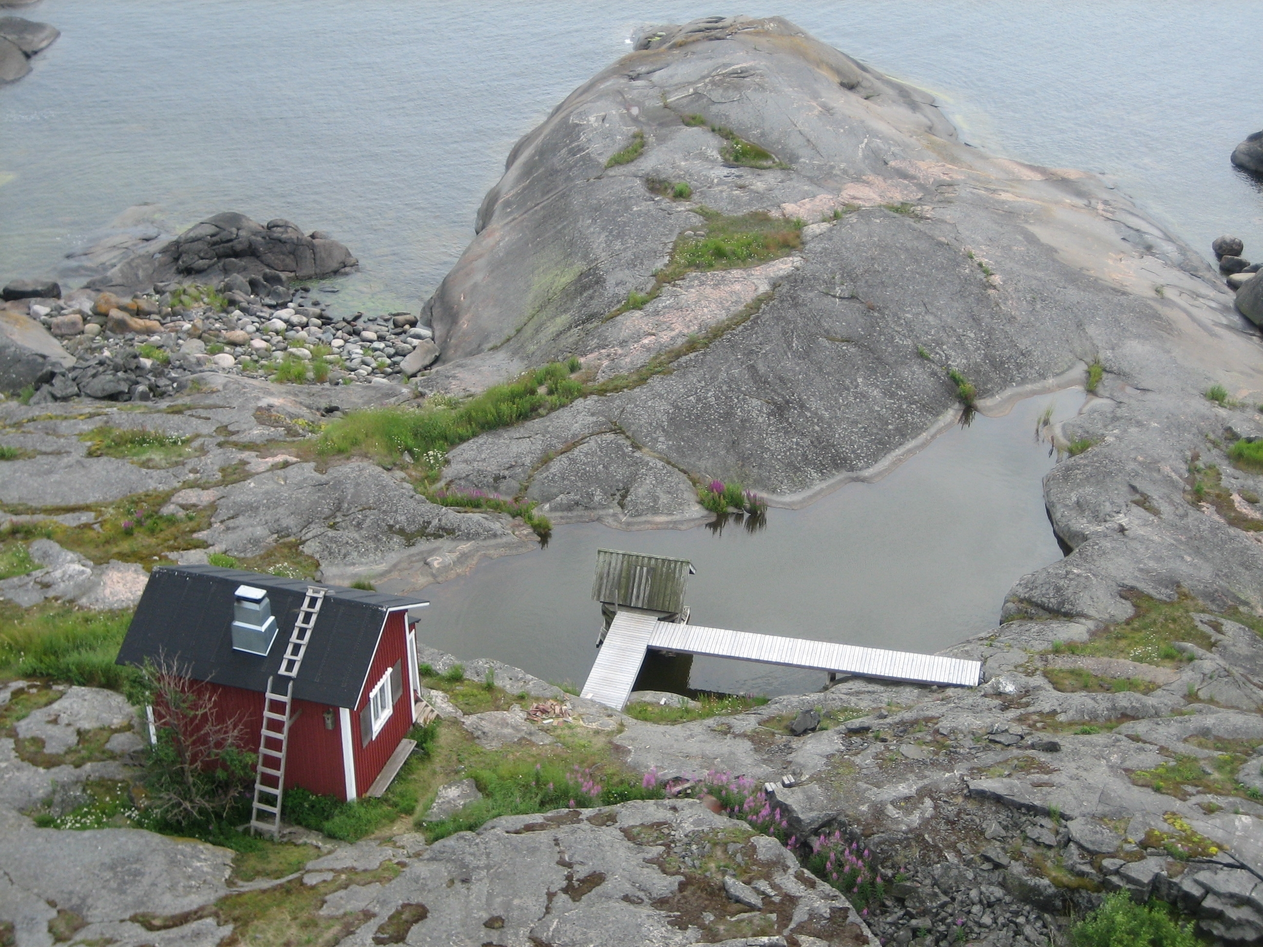 A view from the Söderskär lighthouse: a sauna and a pond collecting unsalty rainwater.